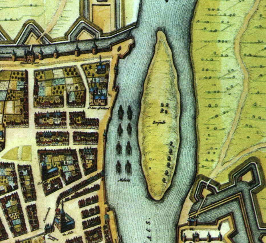 Fragment of the map of Maastricht in Toneel der Steden